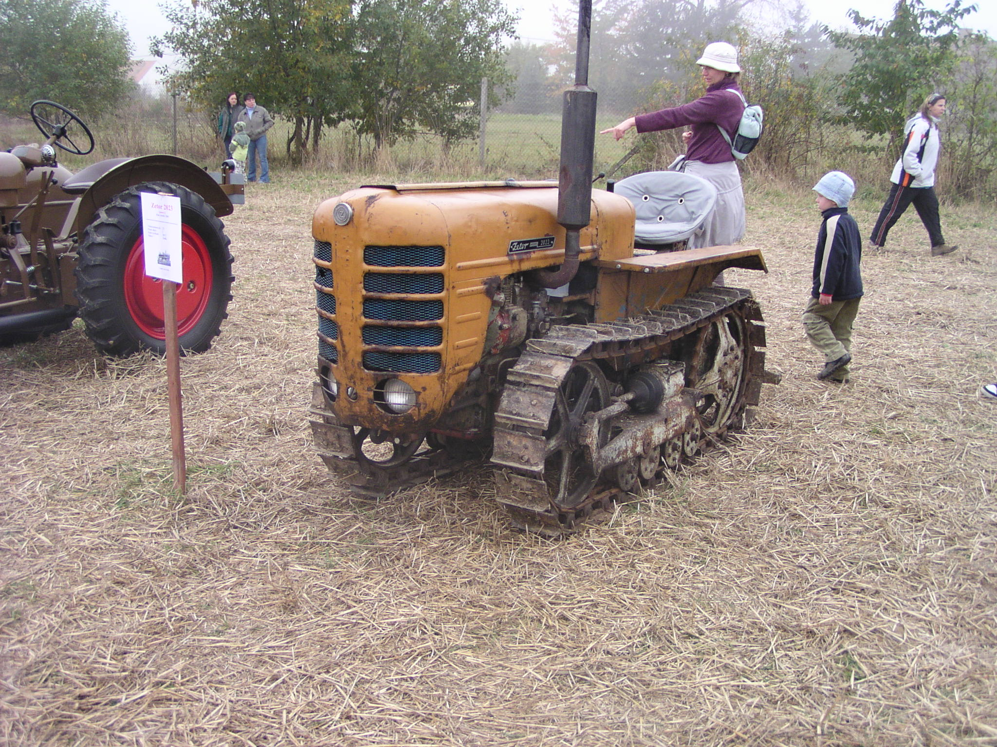 Zetor 2023